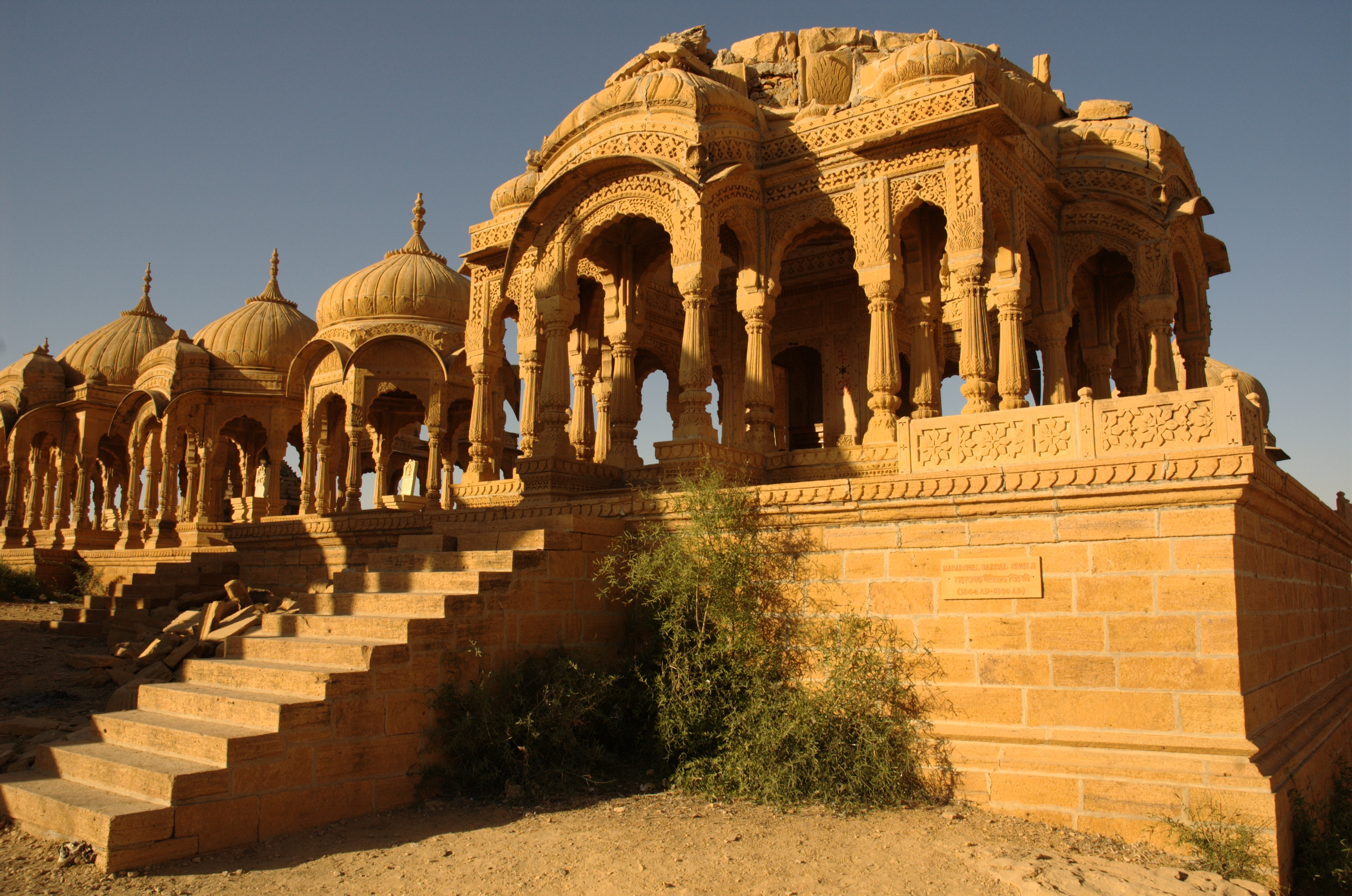 Tombs in Thar desert near the Jaisalmer.